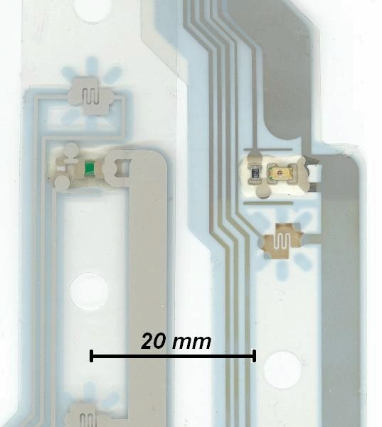 flexible printed circuit board with resistor, light emitting diode and contact area